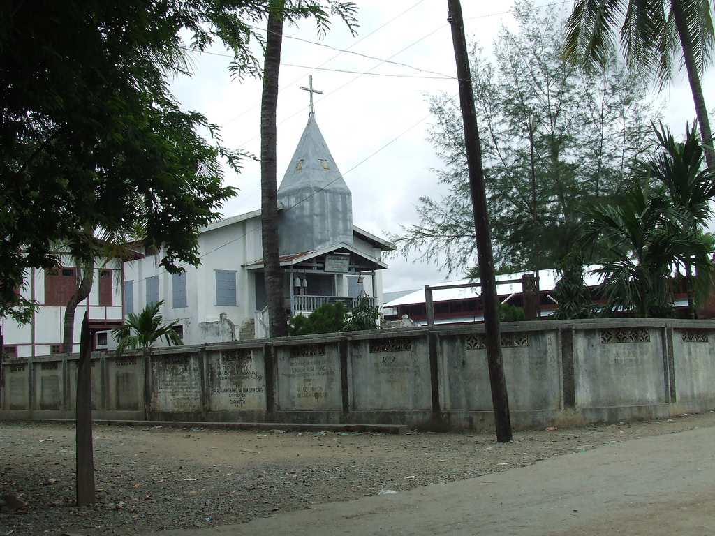 Tahan Baptist Church, Burma